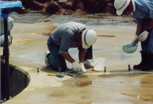 repairing concrete walls in Okinotorishima